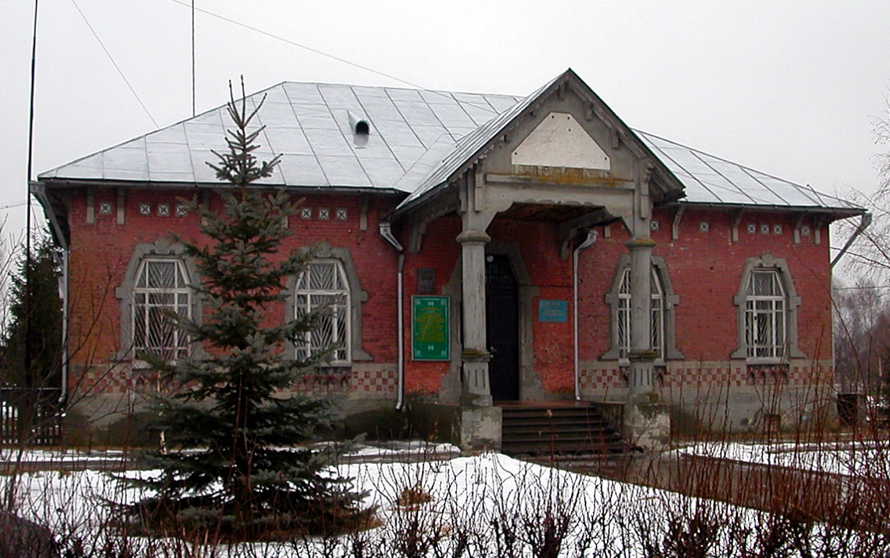 Building of Zemstvo School in Lemeshi.